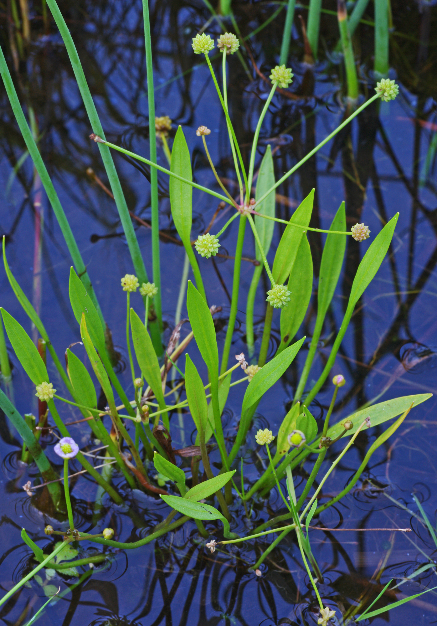 Habitus of the rare water plant Baldellia ranunculoides (Alismataceae) with blossoms and fruits.